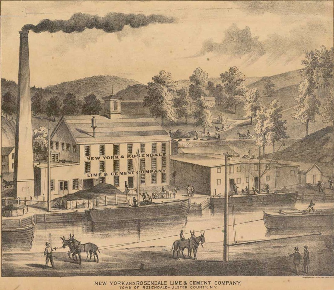 Scanned page of an atlas of Ulster County, New York prepared by F. W. Beers and first published in 1875.